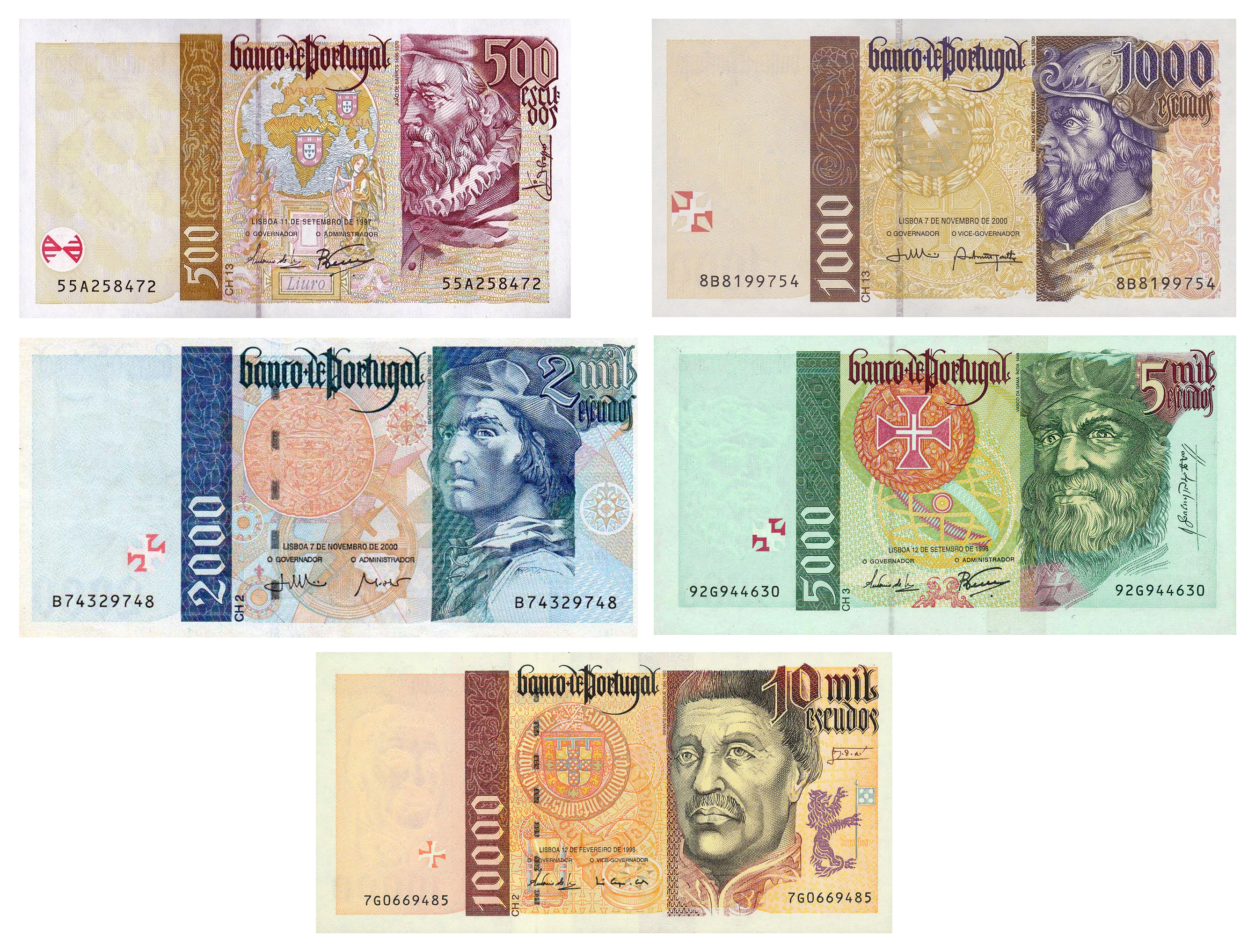 Last Series of Portuguese-Escudo Notes